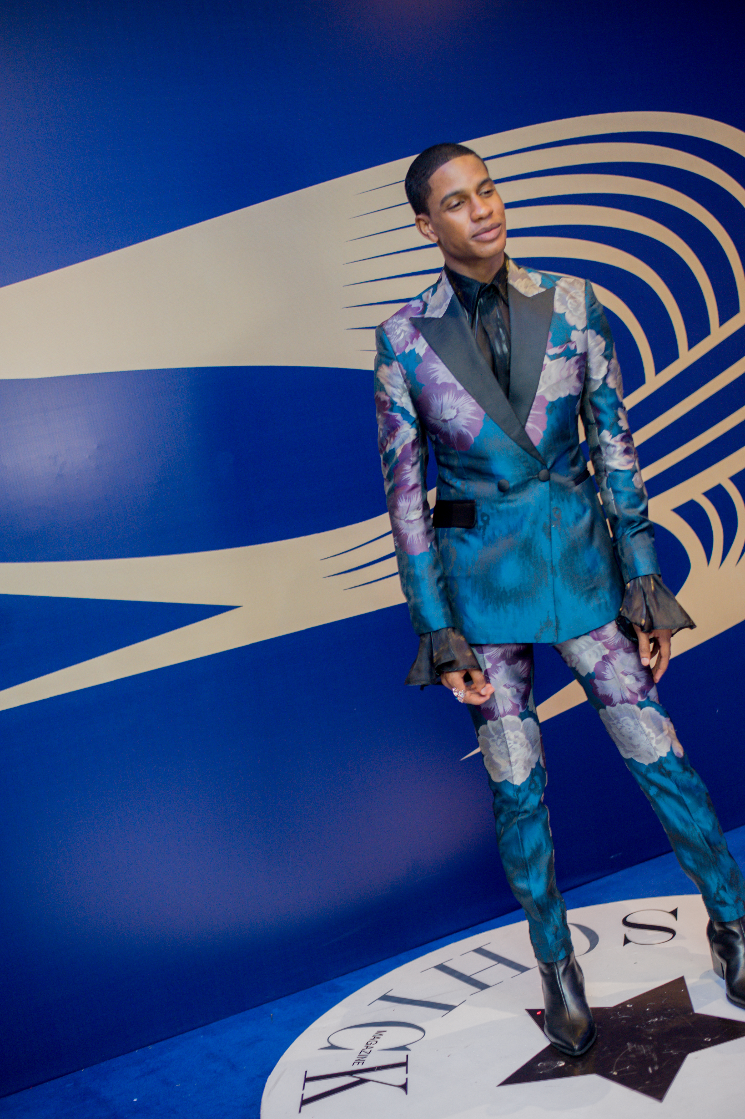 Denola Grey at AMVCA 2020